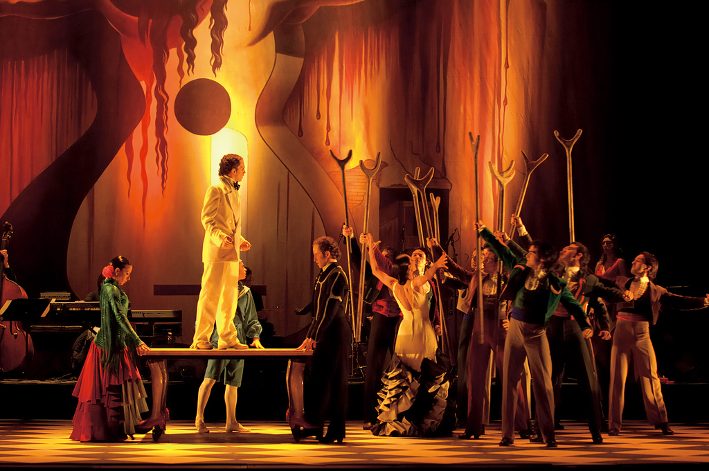 National Ballet at the Zarzuela Theatre This photograph can be used for publications, including this copyright statement: “©PromoMadrid, author Max Alexander”. Esta fotografía puede usarse en publicaciones, incluyendo la declaración “©PromoMadrid, autor Max Alexander”.